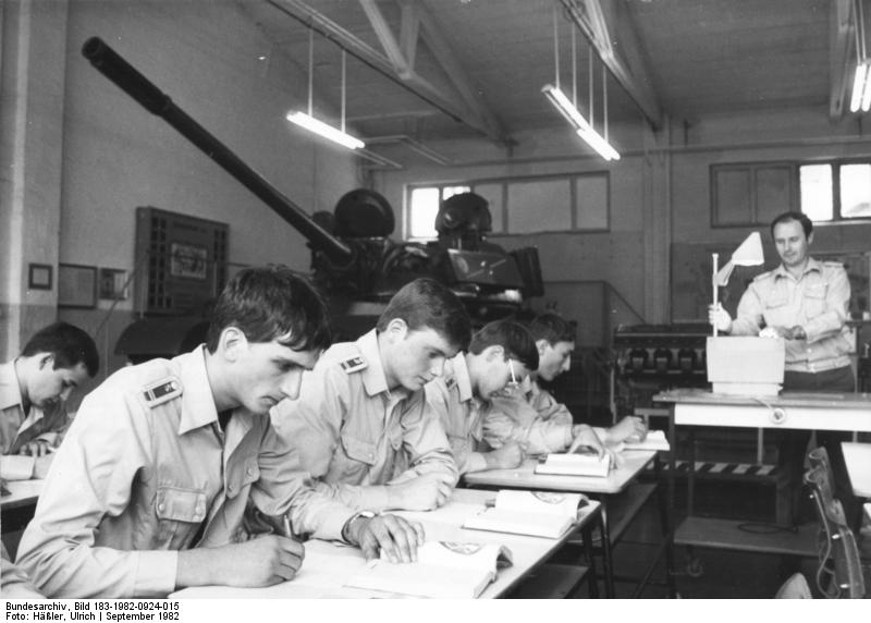 future commanders of the GDR tank-forces are trained in the "Ernst Thälmann" officer school